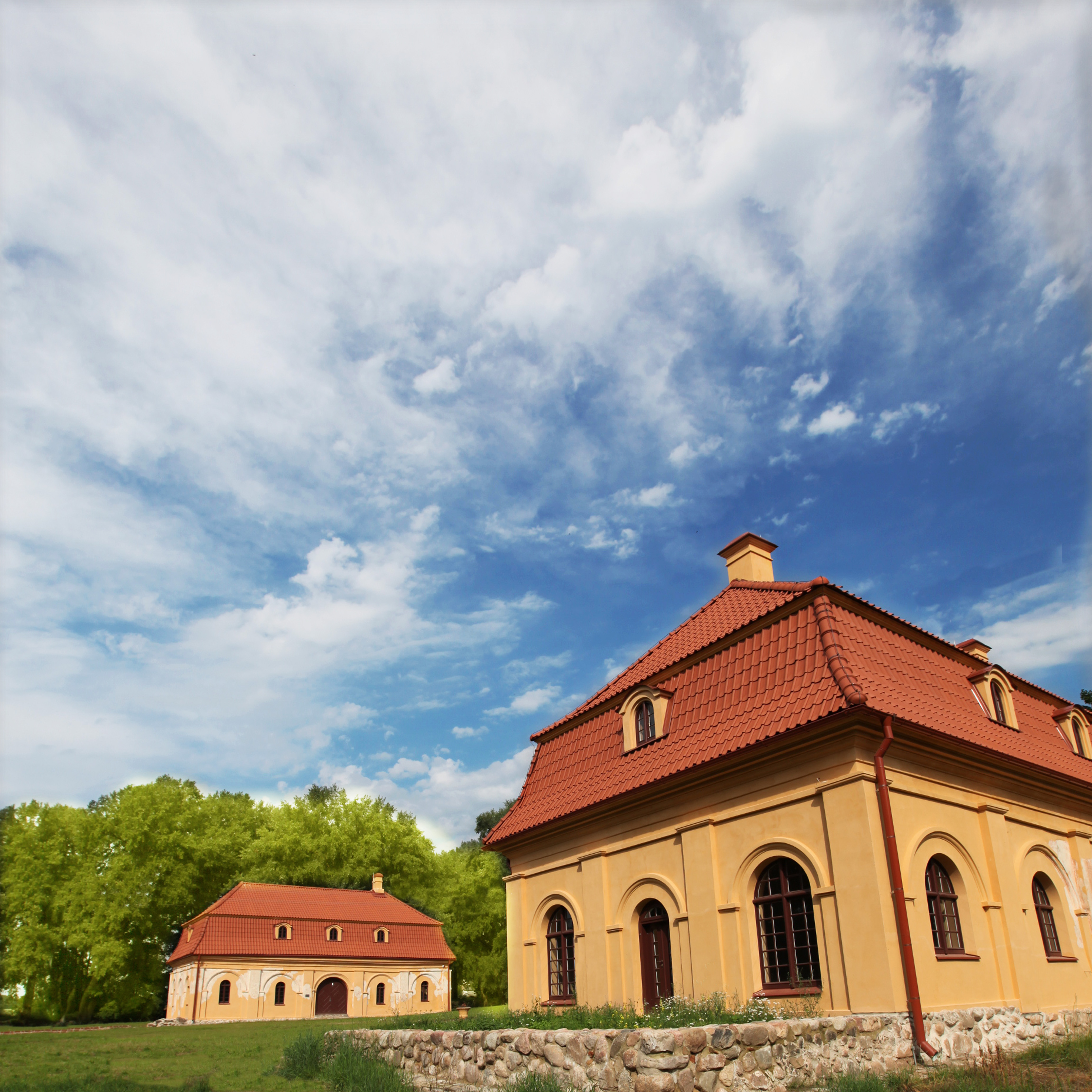 THE 18TH CENTURY BAROQUE ARCHITECTURAL ENSEMBLE OF LIUBAVAS MANOR. Conservation works of Liubavas Manor Officine and Orangery competed in 2016.